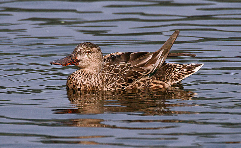 Northern Shoveler (Anas clypeata) in Kolkata, West Bengal, India.